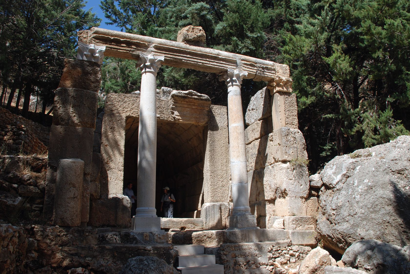 Temnine el-Faouqa, Lebanon, roman nymphaeum